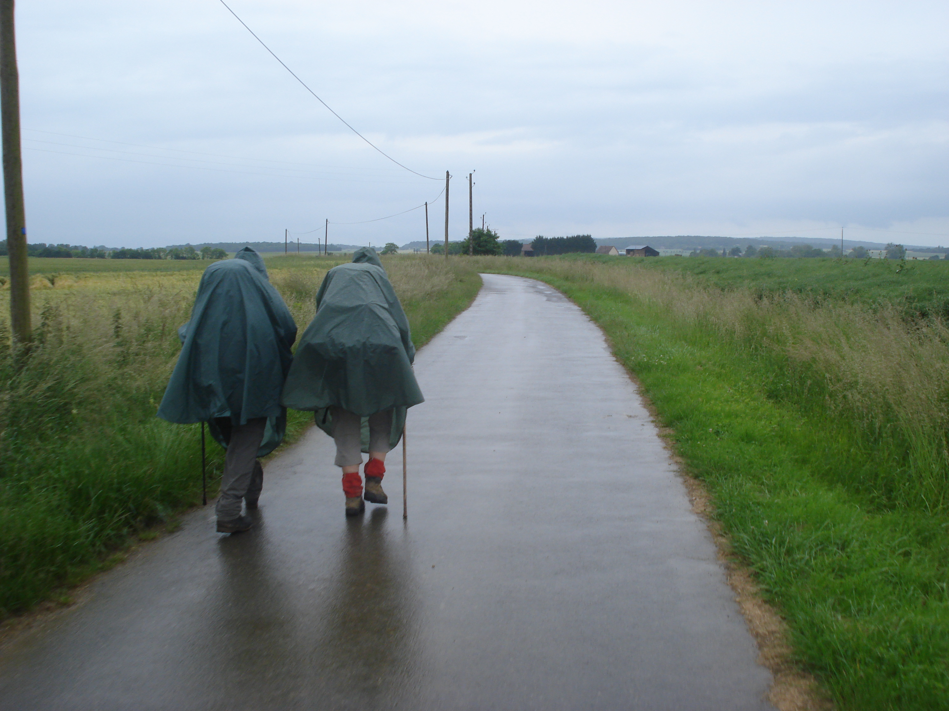 Pilgrims on the Way of St.James near Saint-Martin-des-Champs (Cher, Fr).